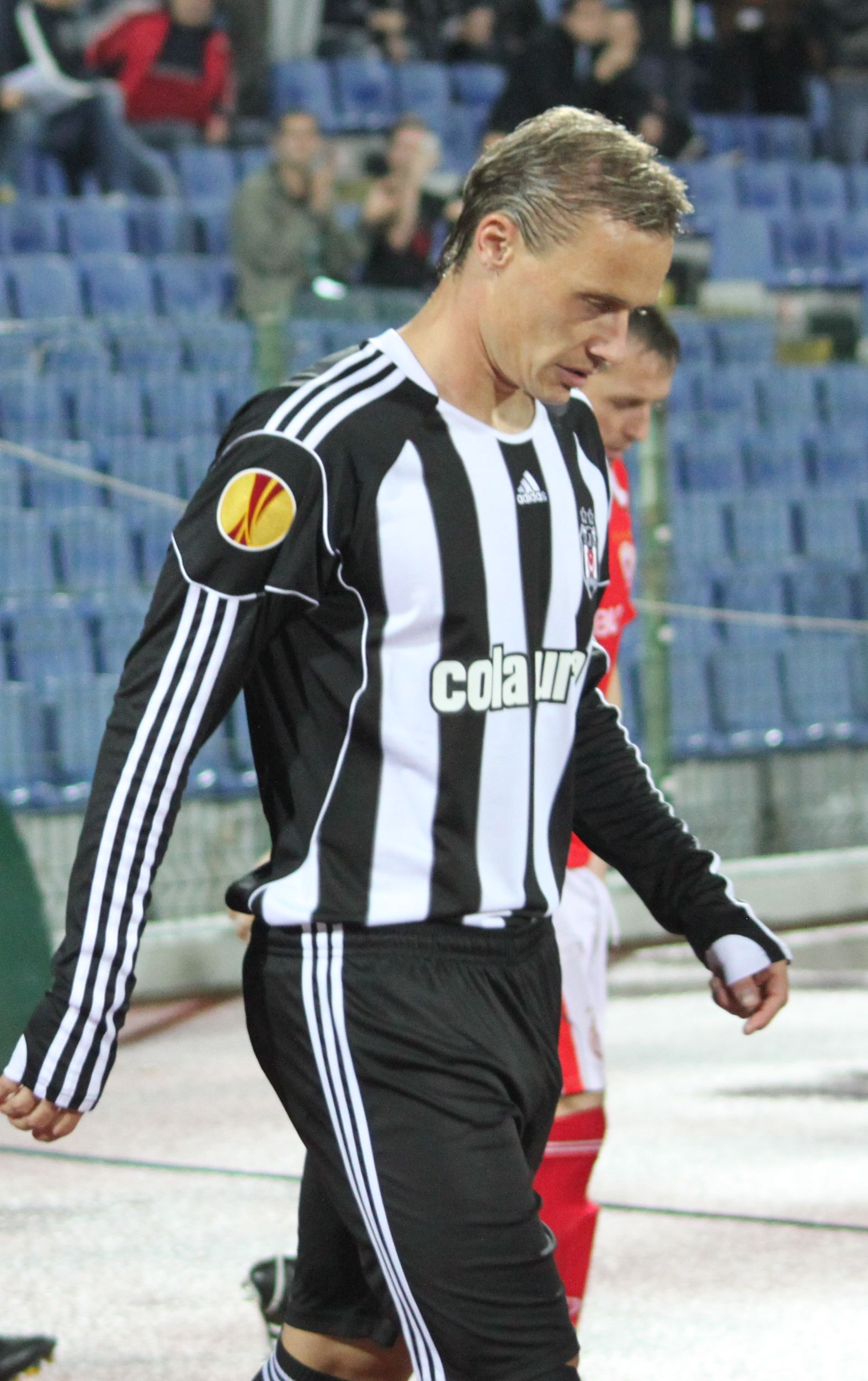 Tomáš Zápotočný (born 13 September 1980) is a Czech footballer, known as "Zapo", who currently plays for Turkish side Beşiktaş J.K. as a centre back.